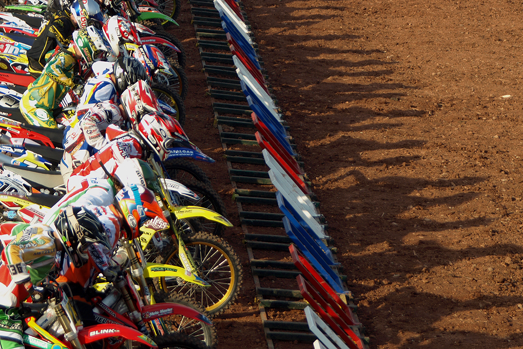 Start grid at Red Bull FIM Motocross of Nations 2008